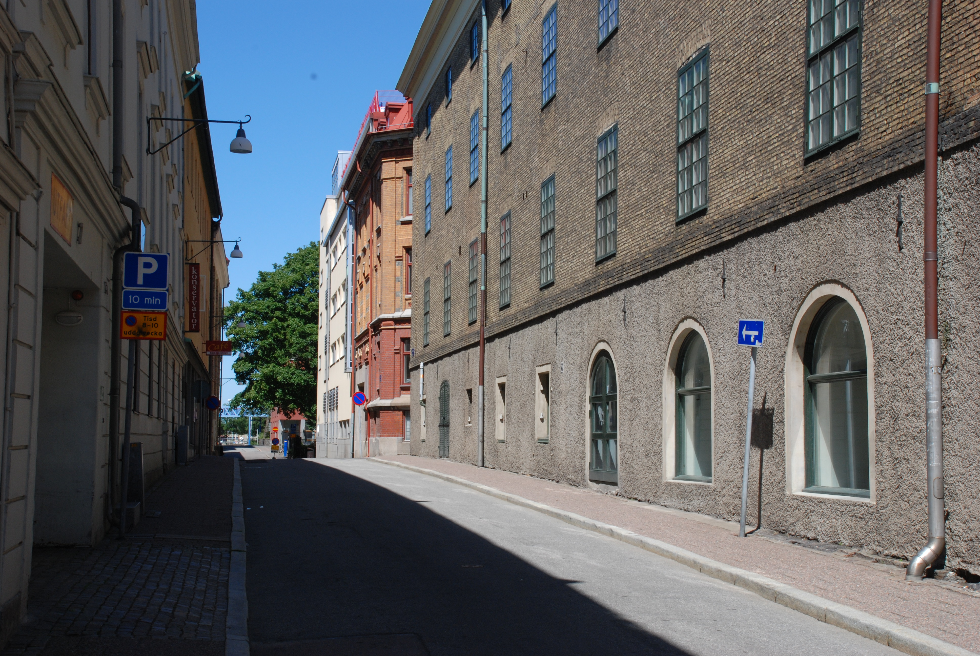 Smedjegatan in city part Nordstaden in Göteborg. The building to the right is the City Museum of Göteborg.